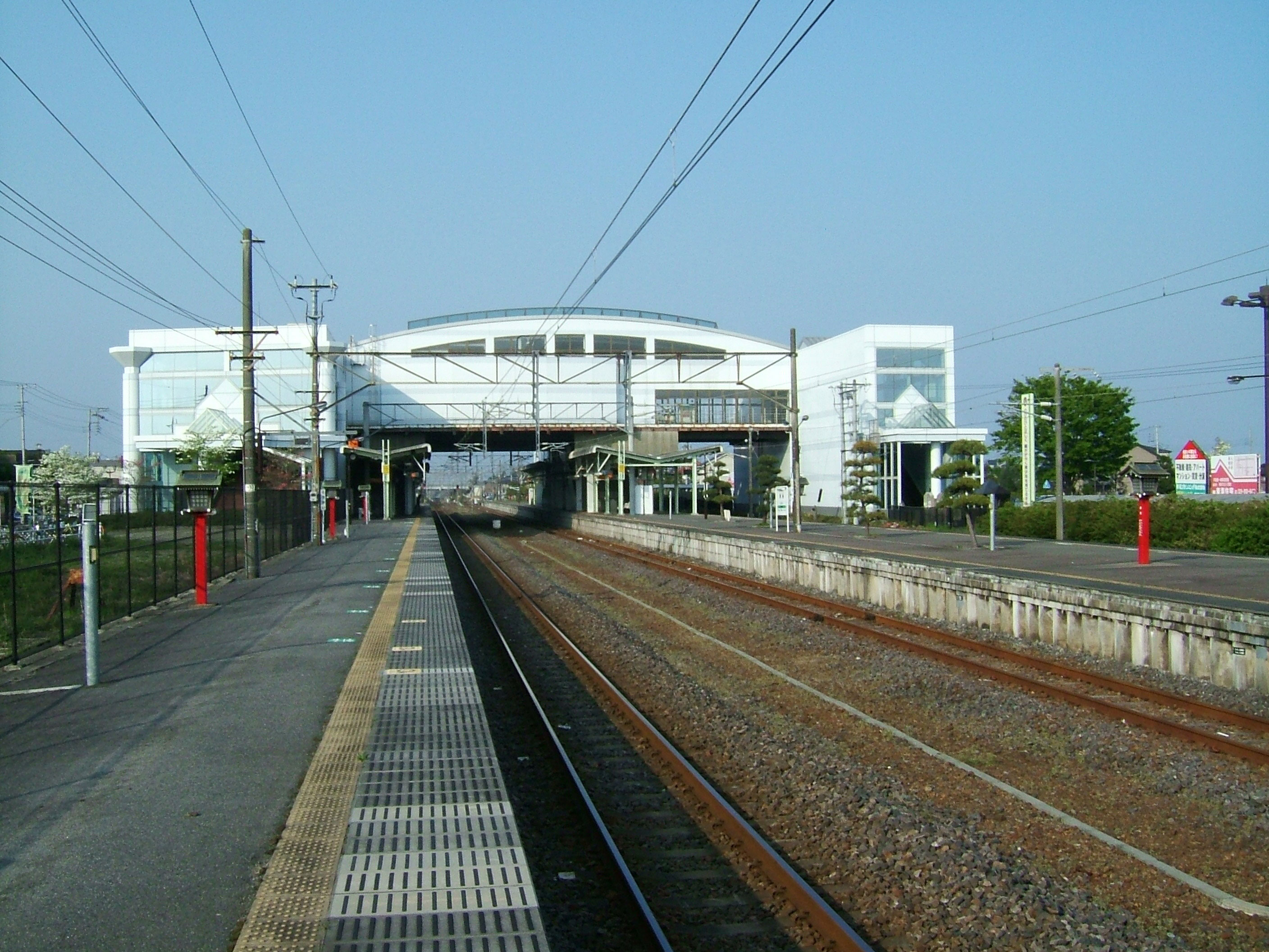 Tōkai Station platform side (East Japan Railway Jōban Line)